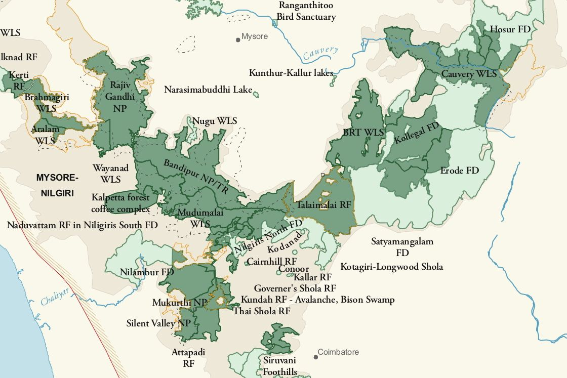 Map of Nilgiri Biosphere Reserve 1/1,300,000.